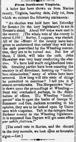 Article on the replacement of county officials by officials loyal to the Unionist government in Wheeling, also suspicions regarding prominent western Virginia politicians and public figures.